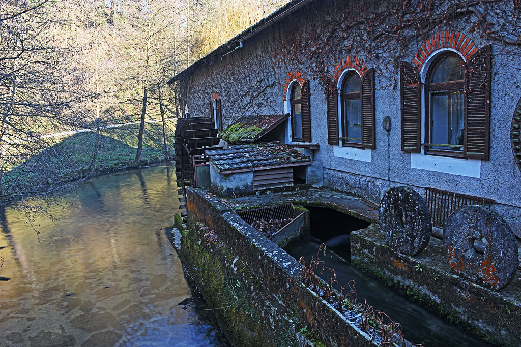 In the ex castle parc, by Radulja creek, once there was this moulin, which is nowadays not in use any more, but is nicely renovated.